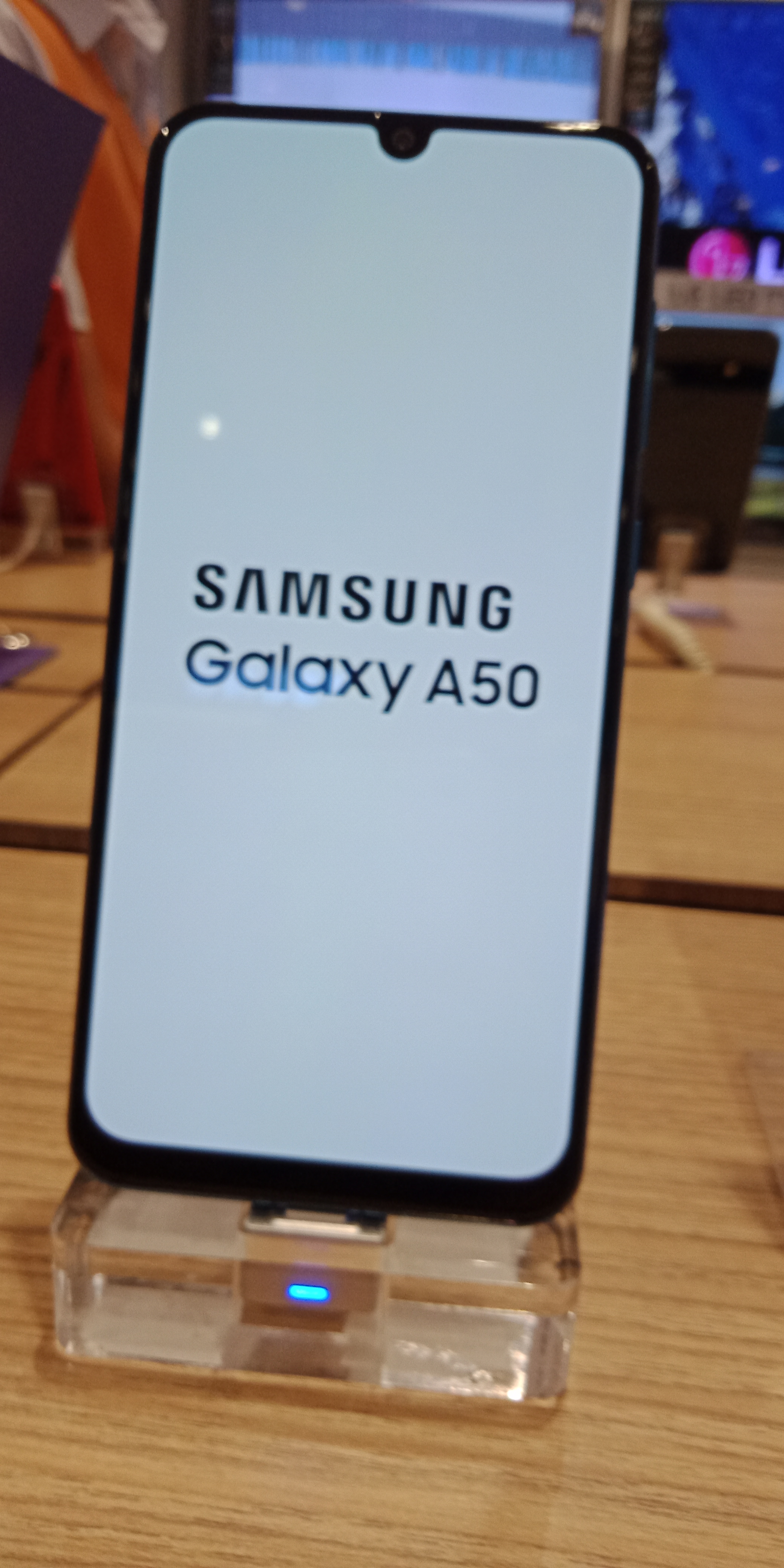 Samsung Galaxy A50 screen